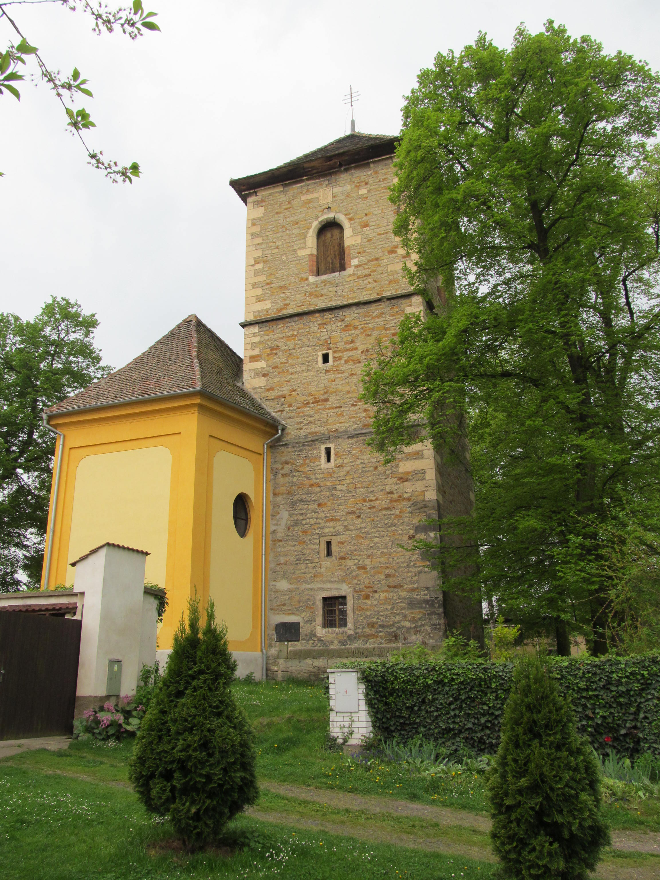 Church of Saint Catherine in Obora